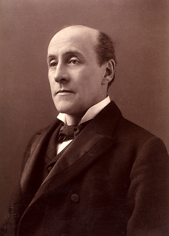 Anthony Hope Hawkins (1863-1933), Collodion print on card